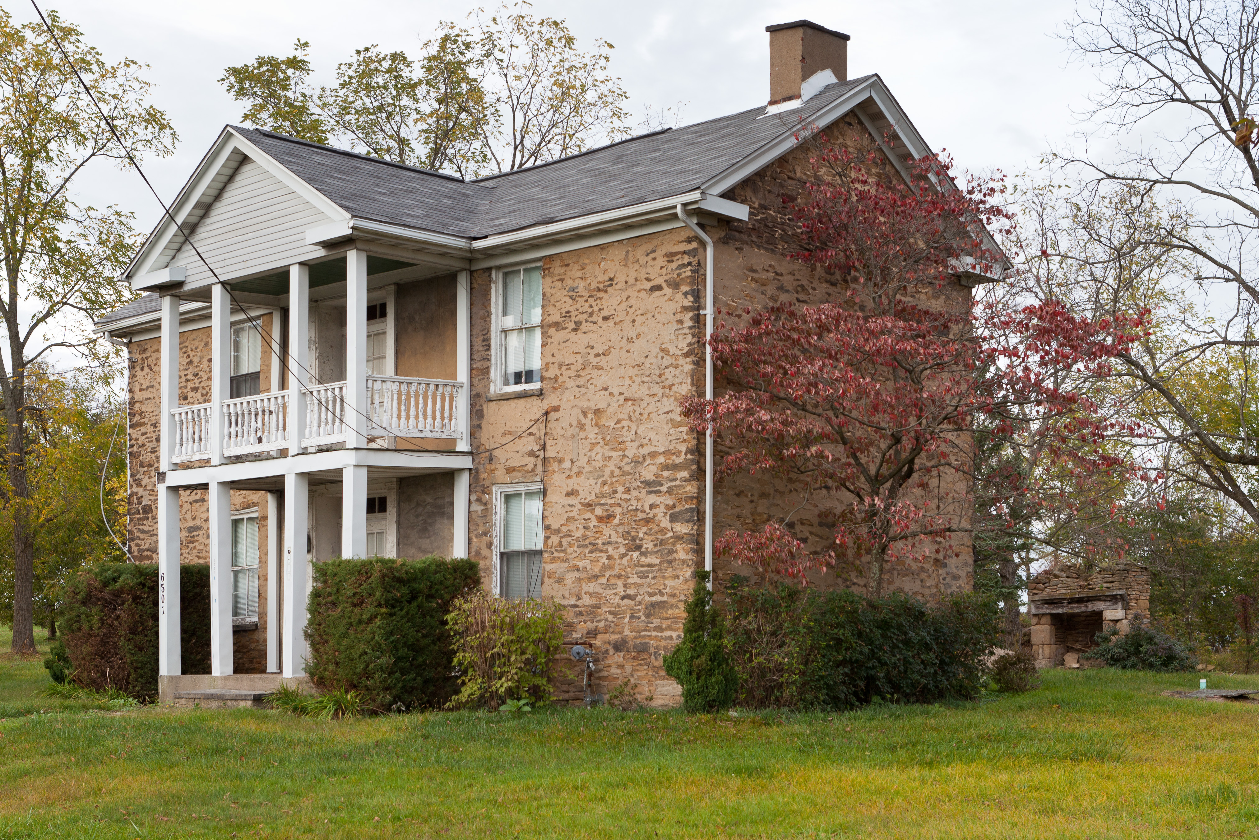 Wallace-Baily Tavern is a historic home that also served as an inn and tavern located at Redstone Township, Fayette County, Pennsylvania. The runis of a wash house/summer kitchen can be seen behind the house.